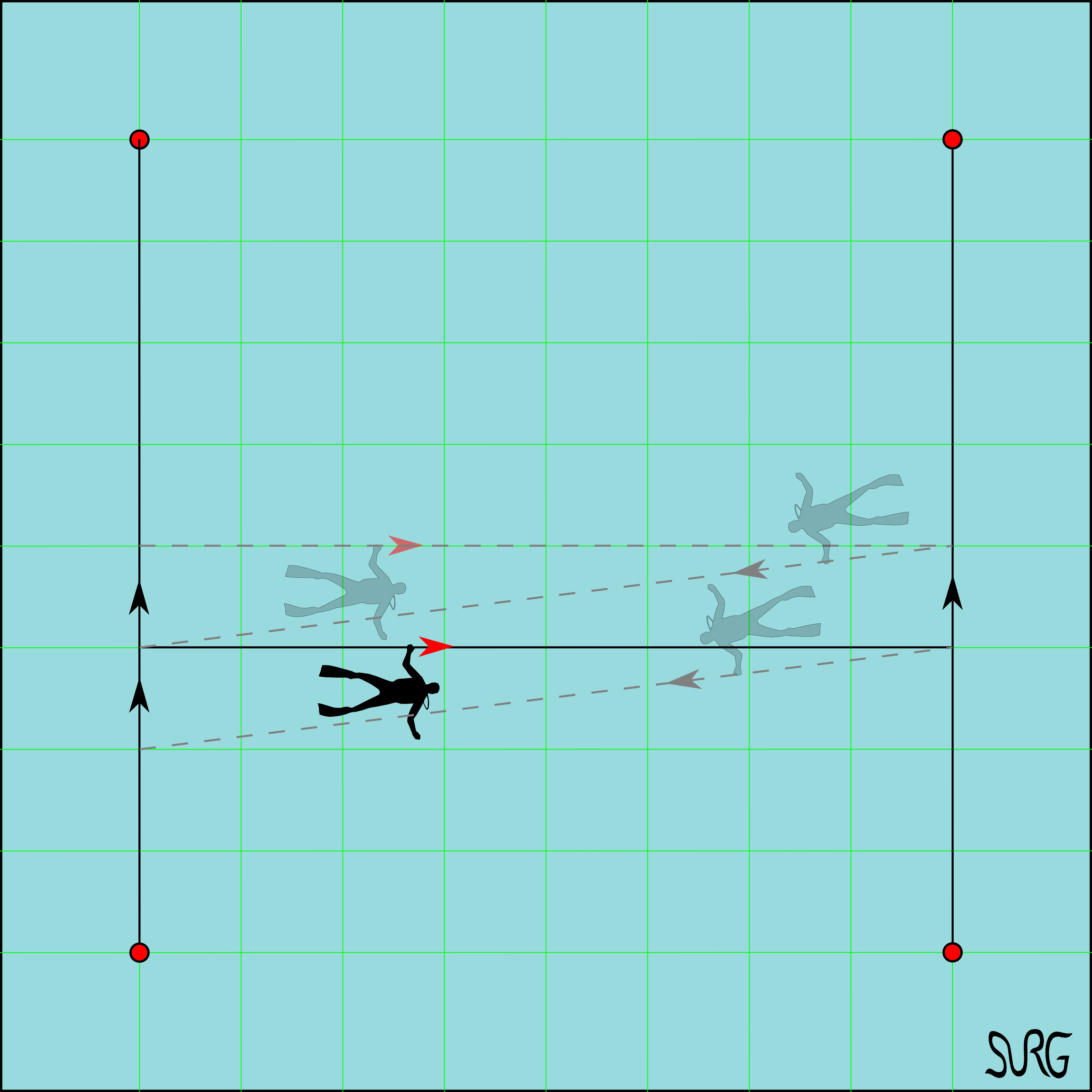 Illustration of underwater jacktay "J " search pattern